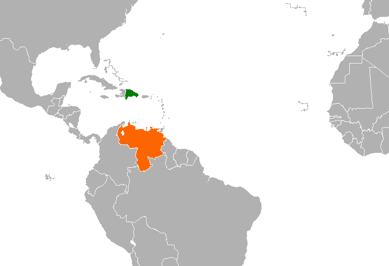 Image of map denoting Dominican Republic and Venezuela